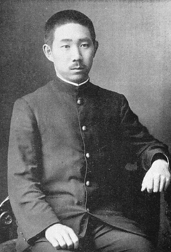 Takanori Iwaki